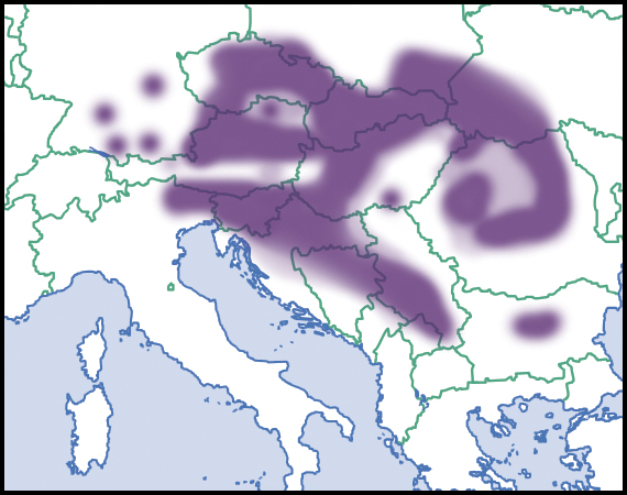 Discus perspectivus (Megerle von Mühlfeld, 1816). Distributional range in Europe, scientific state of knowledge of 2012. Source description in English. Light colour indicated rare occurrences or regions where the species could eventually be expected to occur. Dark colour indicated relatively reliable occurrences, as well as regions where the species was expected to occur, and where the species was not known to be extremely rare. Dark colour indications were not necessarily based on published records. Species summary in AnimalBase